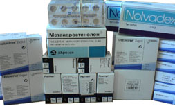 Various anabolic steroids. Author:Wikidudeman